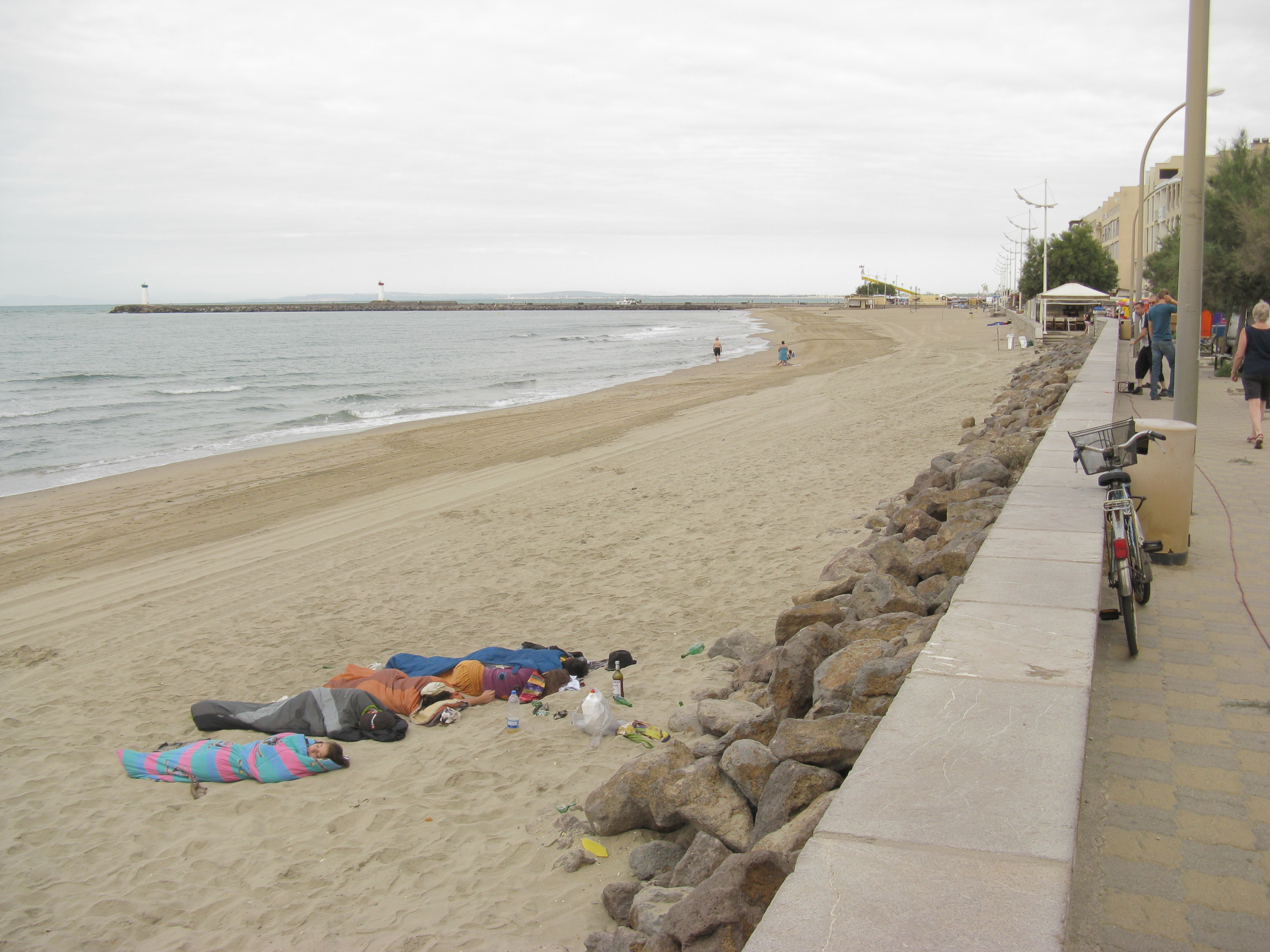 Beach and pier at Le Grau d'Agde.